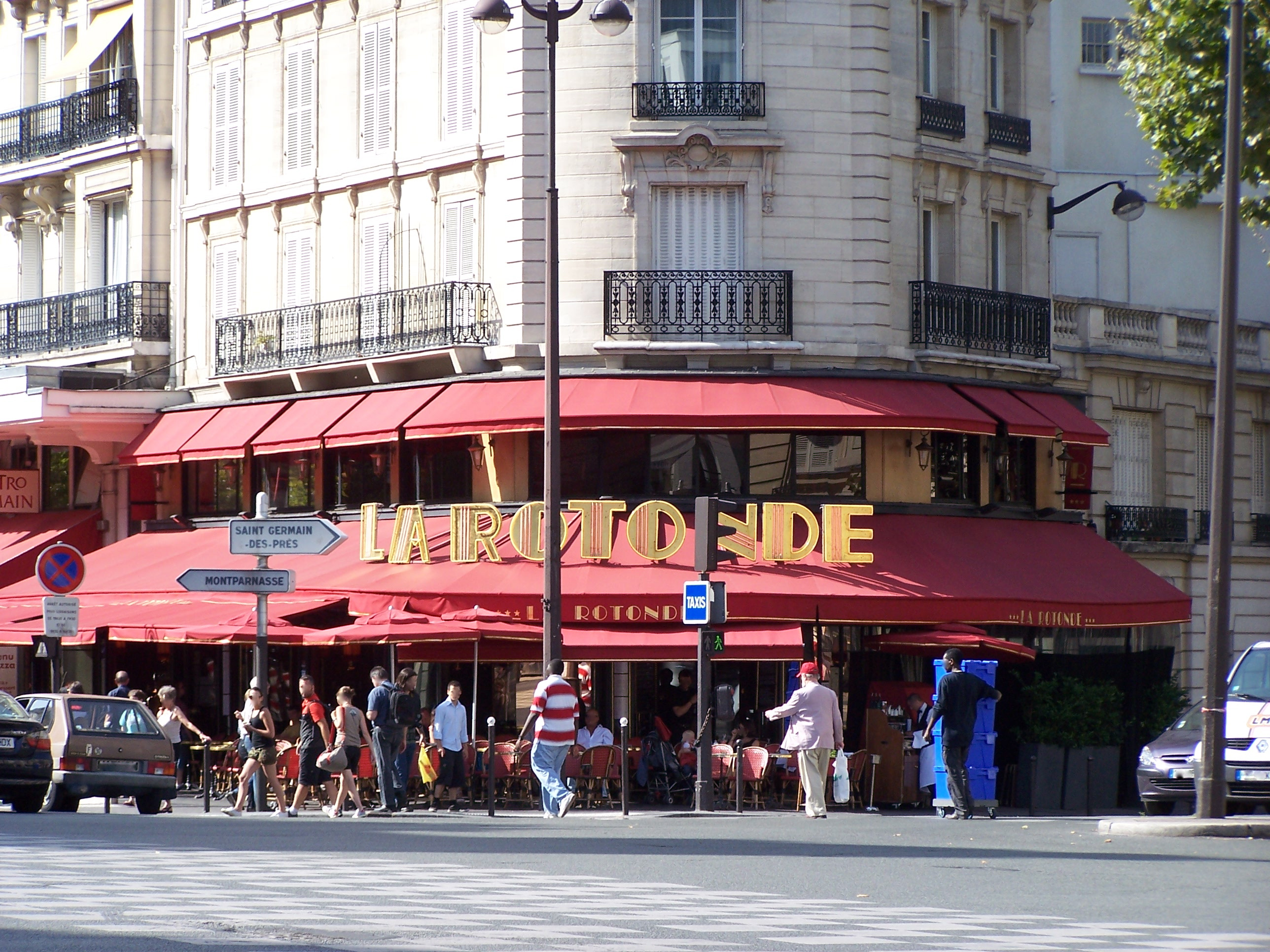 View of the brasserie/restaurant La Rotonde at boulevard du Montparnasse/boulevard Raspail in Paris